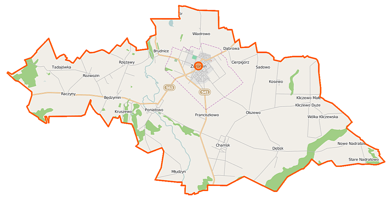 Map of Gmina Żuromin, Poland This map of Żuromin (gmina) was created from OpenStreetMap project data, collected by the community. This map may be incomplete, and may contain errors. Don't rely solely on it for navigation. Border coordinates53.103519.7273←↕→20.084452.9933